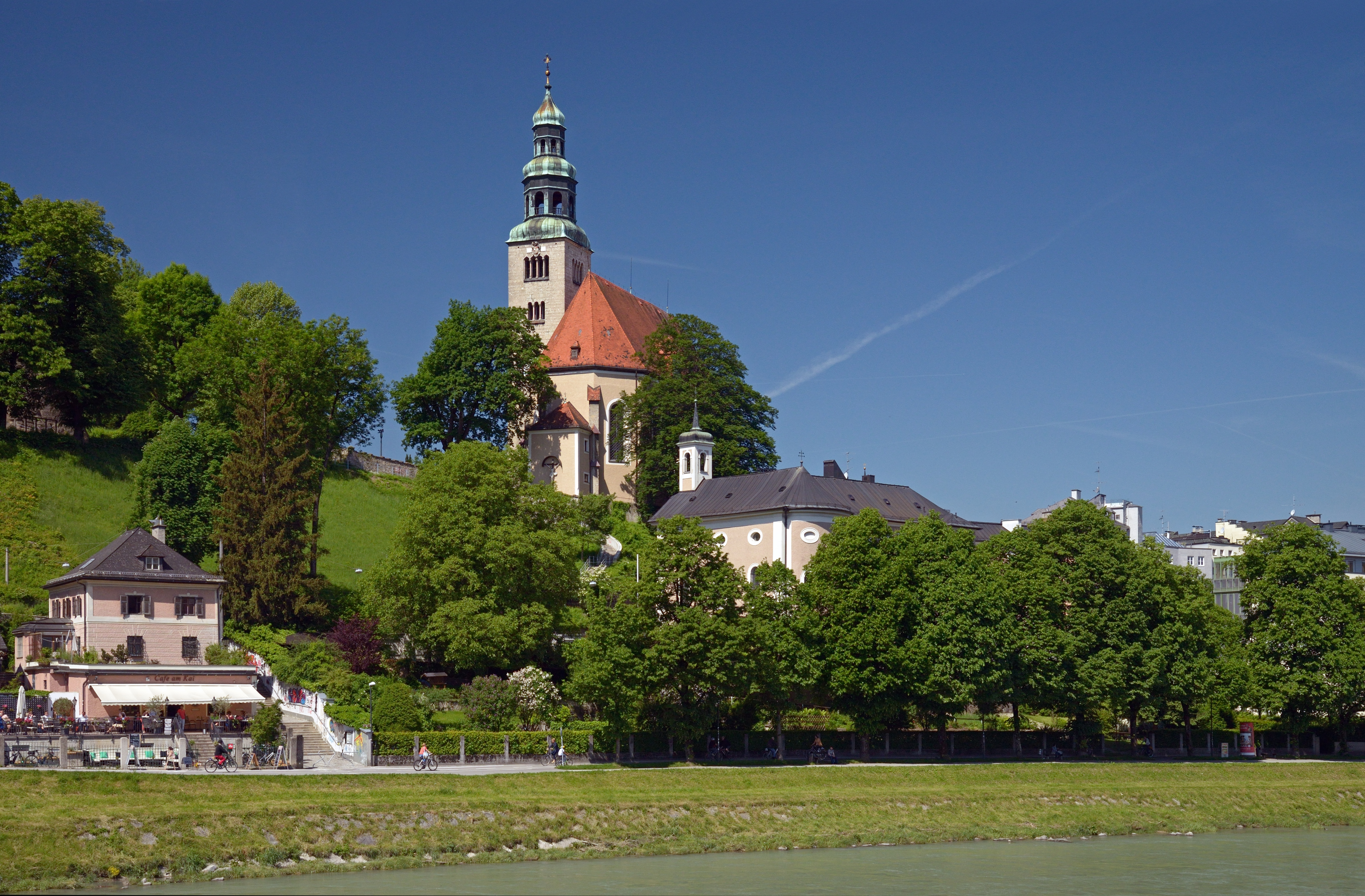 Maria Himmelfahrt Church, view from the Müllner Steg bridge. Salzburg, Austria